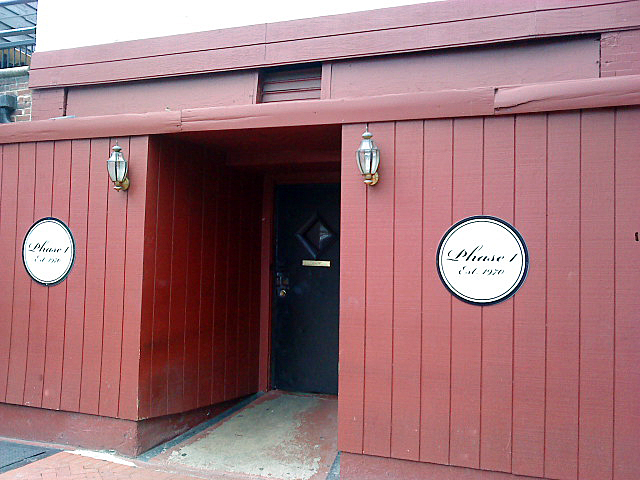 Photo of the exterior of Phase One in Washington, D.C.